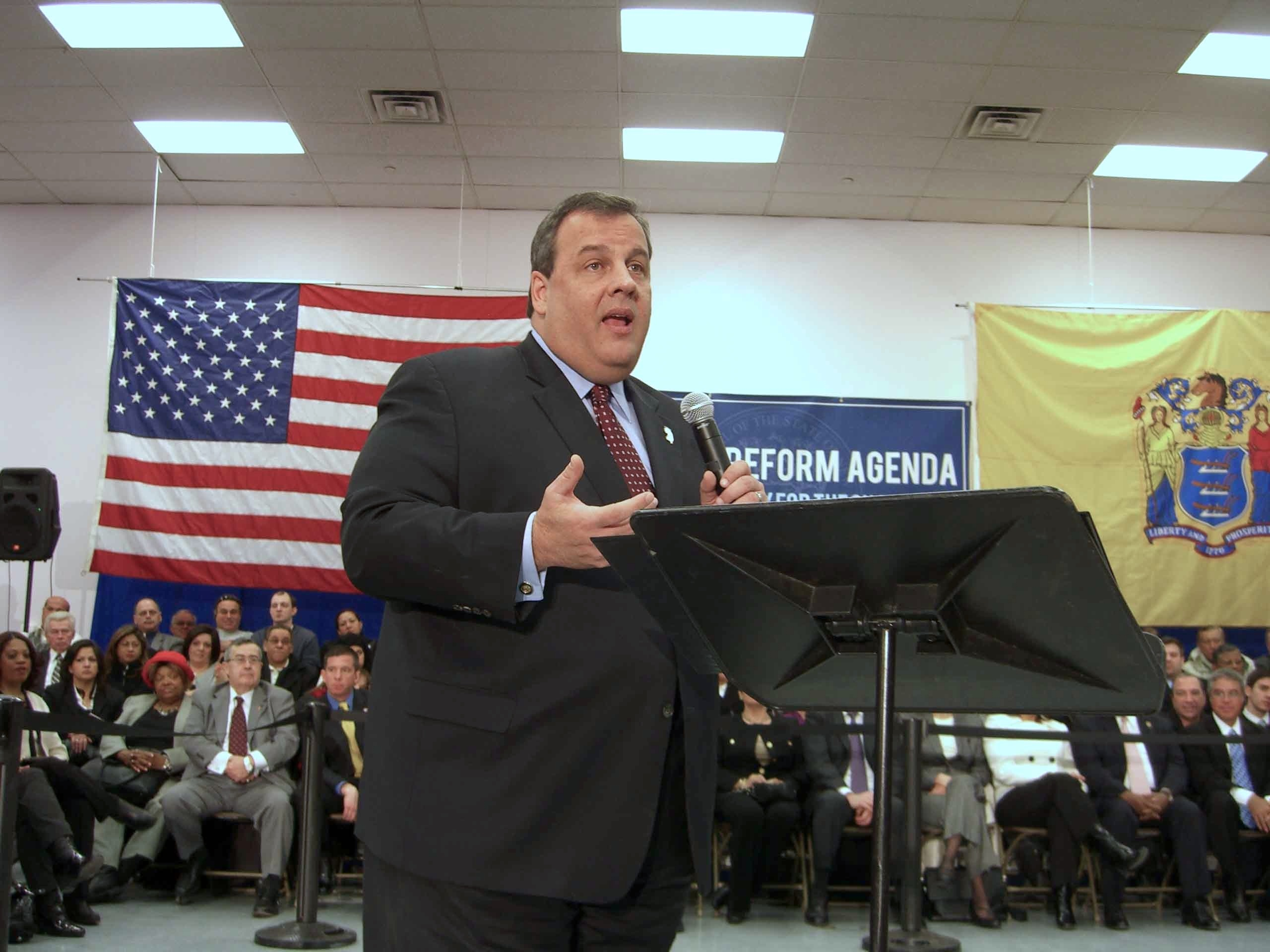 New Jersey Governor Chris Christie at a town hall meeting in Union City, New Jersey, February 9, 2011. This photo was created by Luigi Novi. It is not in the public domain, and use of this file outside of the licensing terms is a copyright violation.